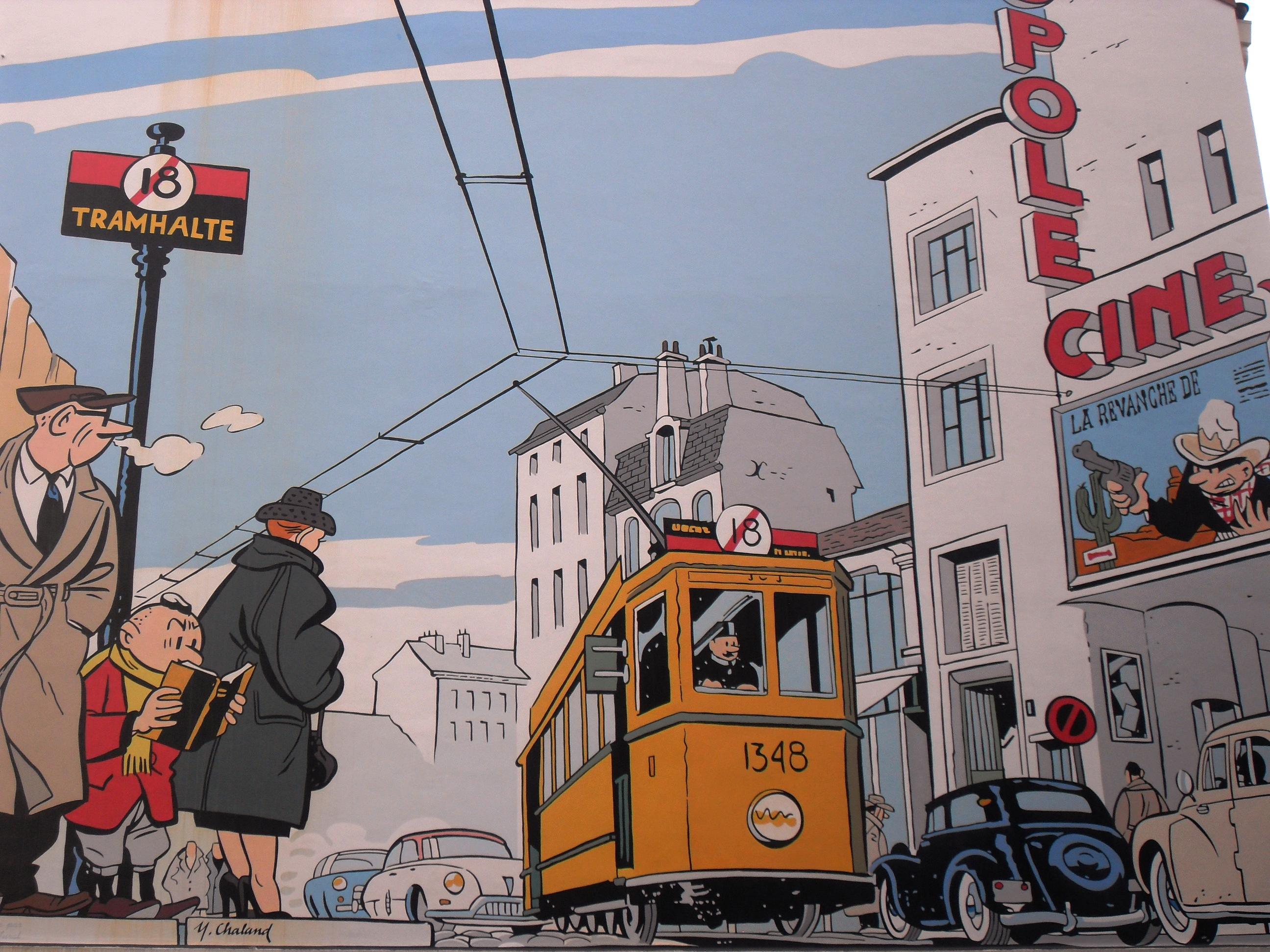 Le Jeune Albert mural painting, by Yves Chaland. Location: Rue des Alexiens 49, Brussels. Surface: ± 110 m². Realisation: Mangnay J.-Y., Oreopoulos G., Pieterhons R. and Vandegeerde D. Year: Mai 2000. Comment: Le Jeune Albert is a scamp character living in the Marolles, a working-class area of Brussels.